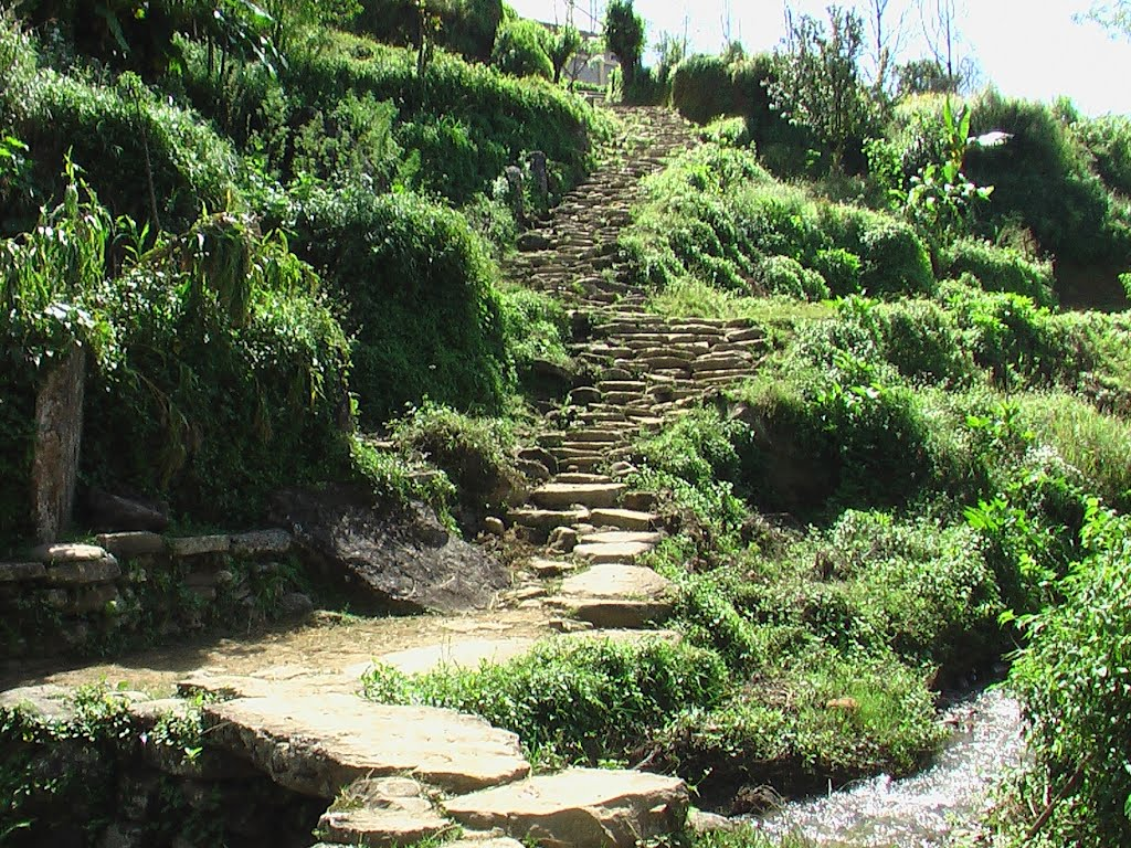 Purul Stairway to haven